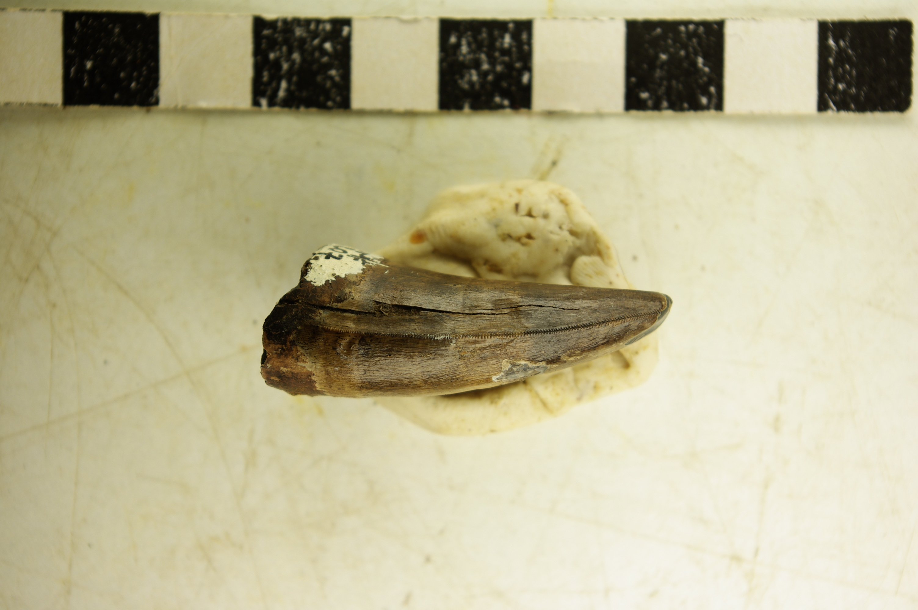 Ibersuchus Tooth